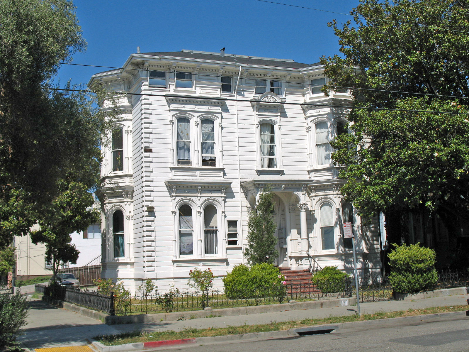 National Register of Historic Places listings in Alameda County, California. White Mansion, 604 E. 17th St., Oakland, CA. Photographed June 27, 2009 from the southeast corner of E. 17th St. and 6th Ave.